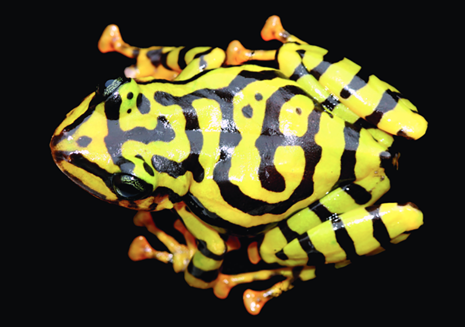 Holotype of Pristimantis ecuadorensis, CJ 4084, adult female.